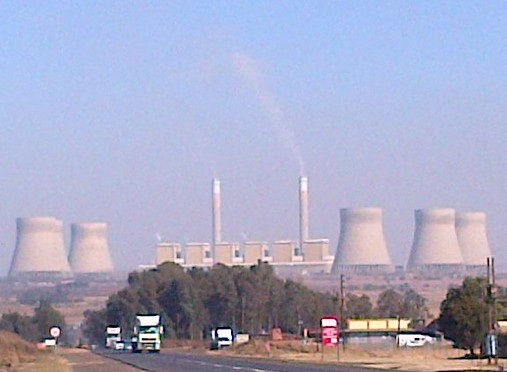 Kendal Power Station Other information NA